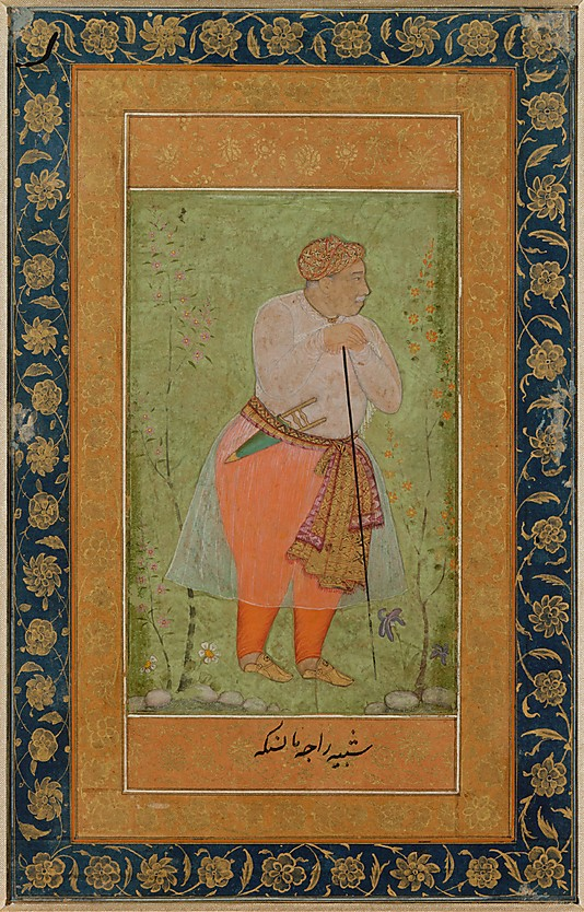 Portrait of Raja Man Singh of Amber, ca. 1590